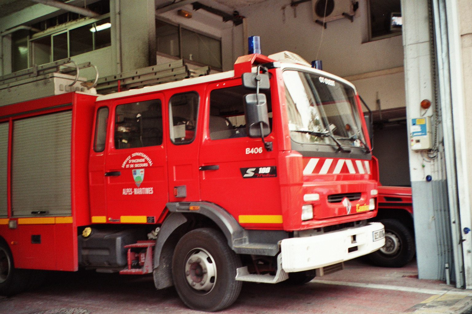 Cannes Alpes-Maritimes, France): Fire engine of the "service departemental d'incendie et de secours ALPES-MARITIMES".